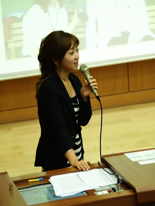 Koran KBS n Sports announcer. Kim SeokRyoo